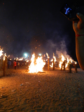 choottu padayani